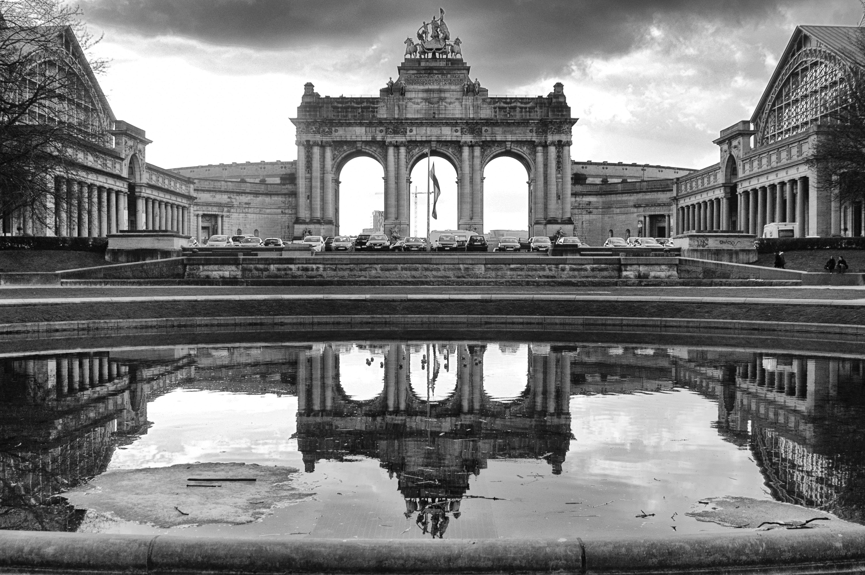 This photo of immovable heritage has been taken in the Brussels Capital Region